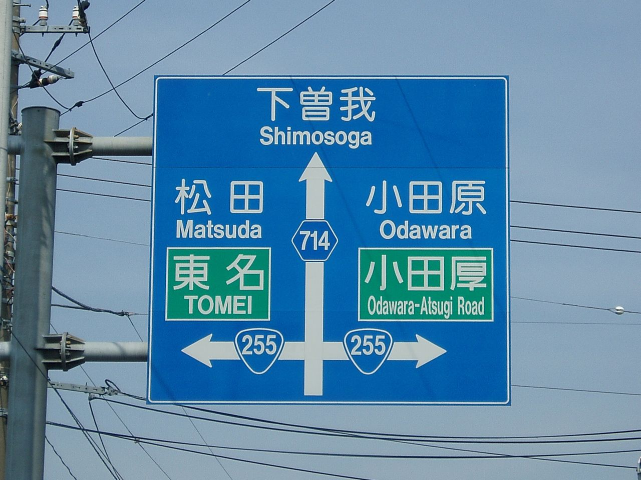 Signboard of Kanagawa Prefectural road No.714. In this signboard, the Odawara Atsugi road is written, "Oda Atsu" in Japanese.